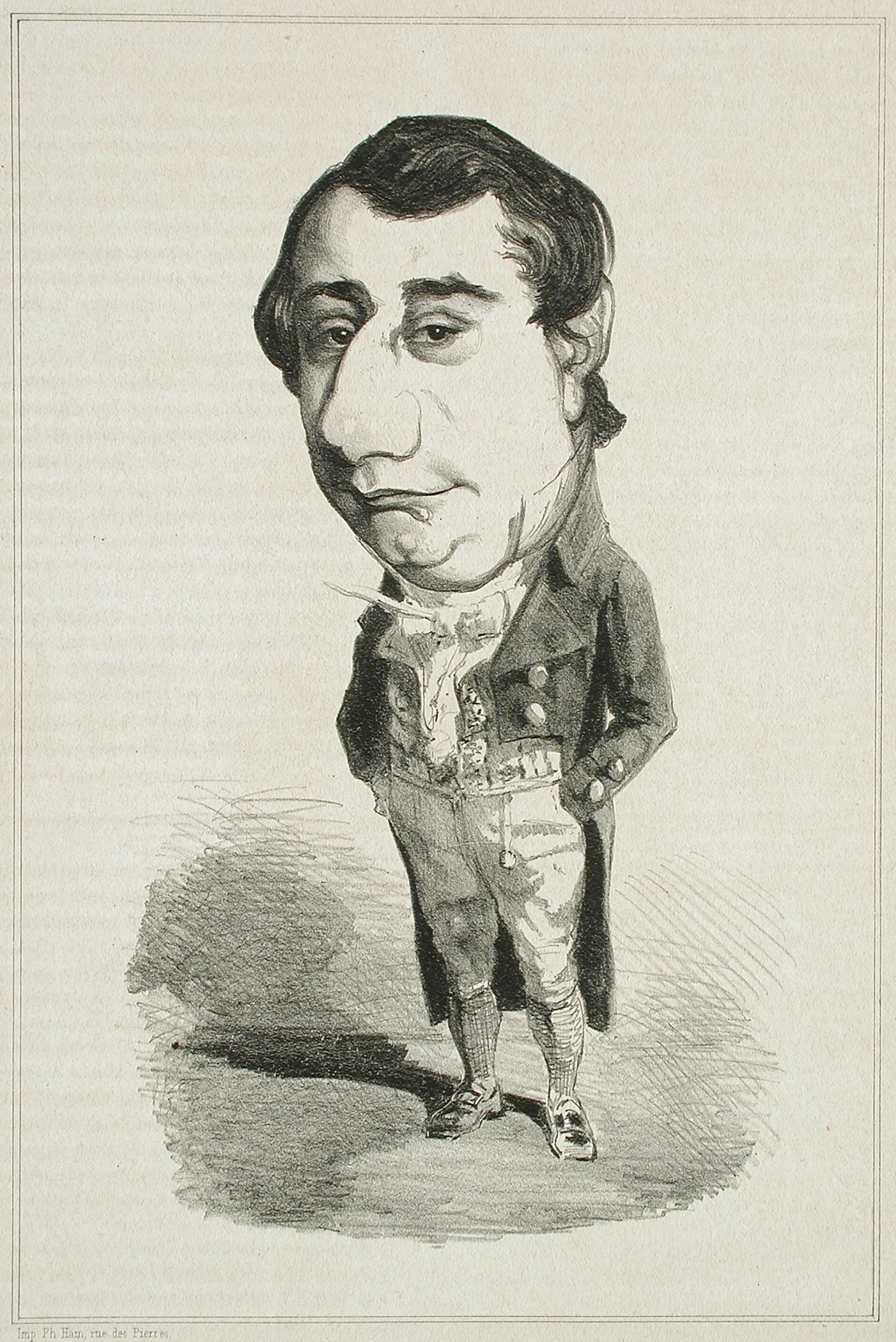 Caricature of operatic bass Victor Prilleux by Félicien Victor Joseph Rops. Belgium, 1856 Periodical: Uylenspeigel, no. 8, 23 March 1856 Prints; lithographs Lithograph 8 7/8 x 5 15/16 in. (22.54 x 15.08 cm) Gift of Michael G. Wilson (M.80.277.10) Prints and Drawings